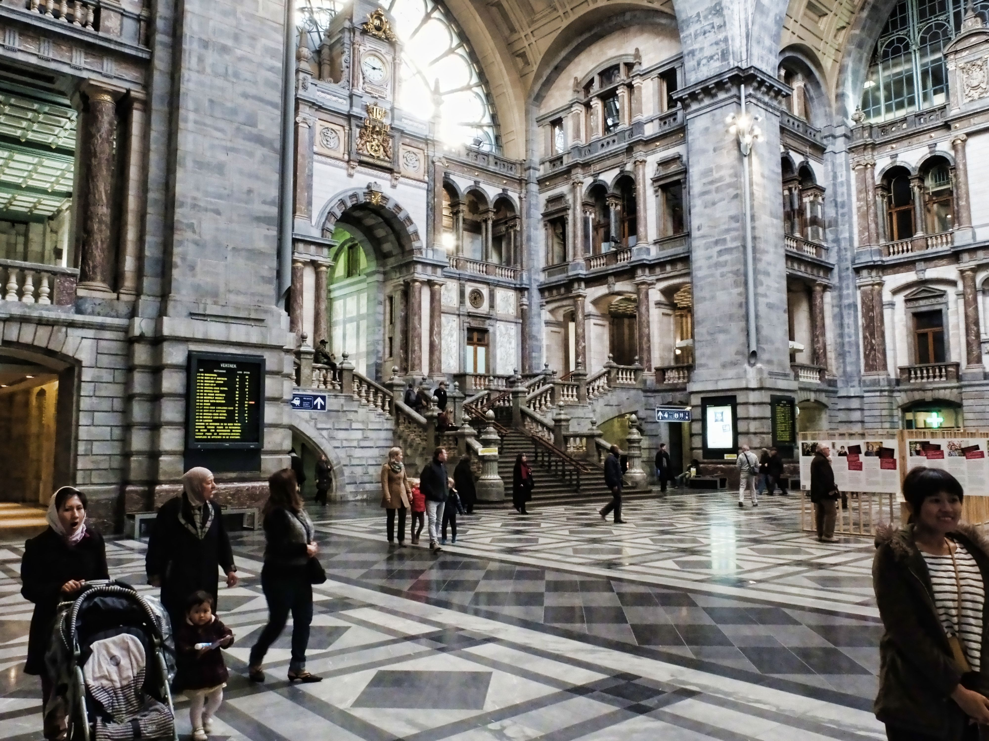 Central Railway Station in Antwerp